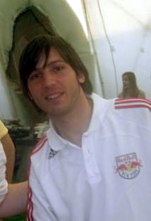 Cropped version of Commons file 'Albert Celades.jpg' to show just Mr. Celades (a Spanish footballer).